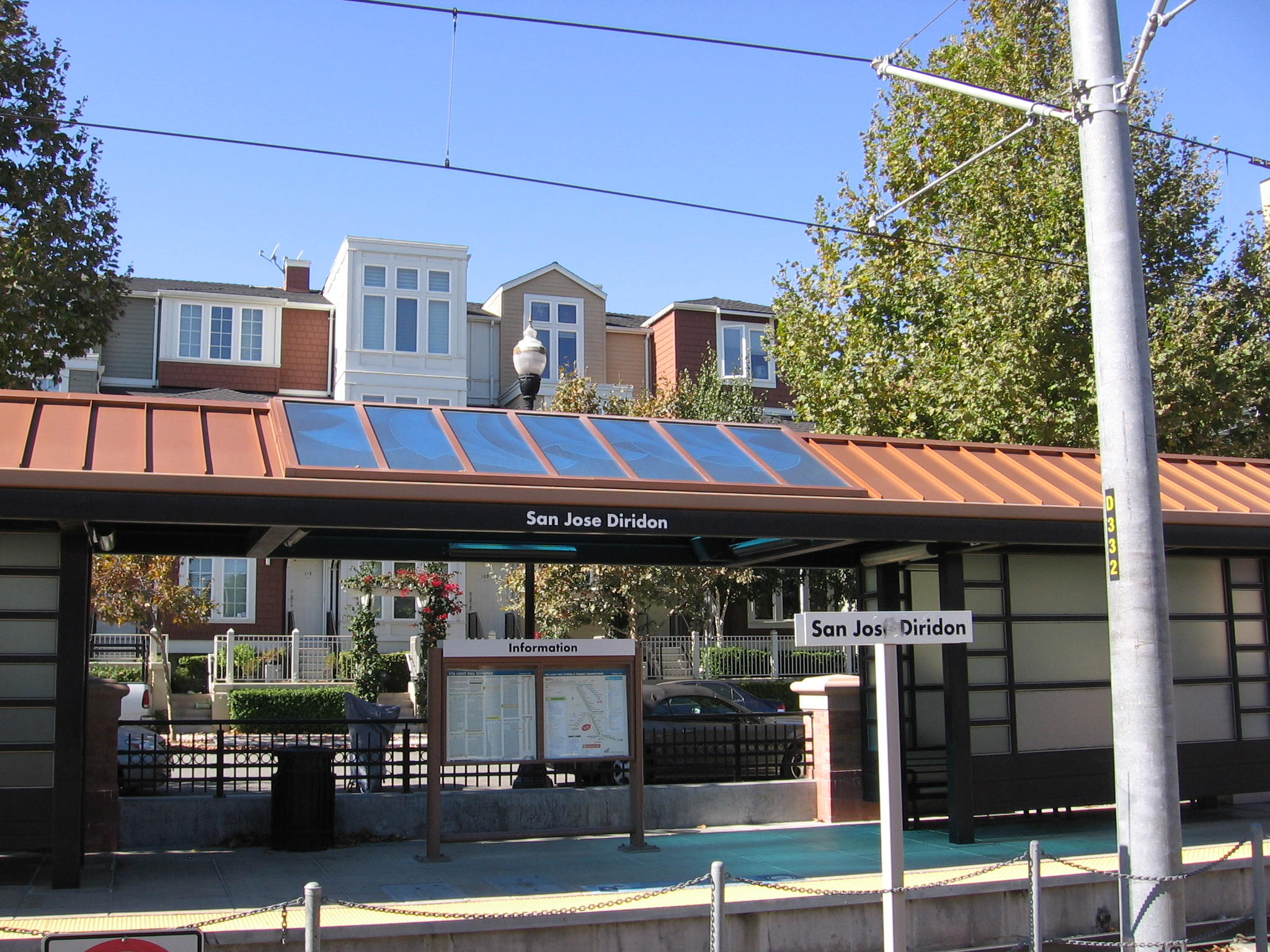 The VTA light rail Diridon Station in San José, California, USA.